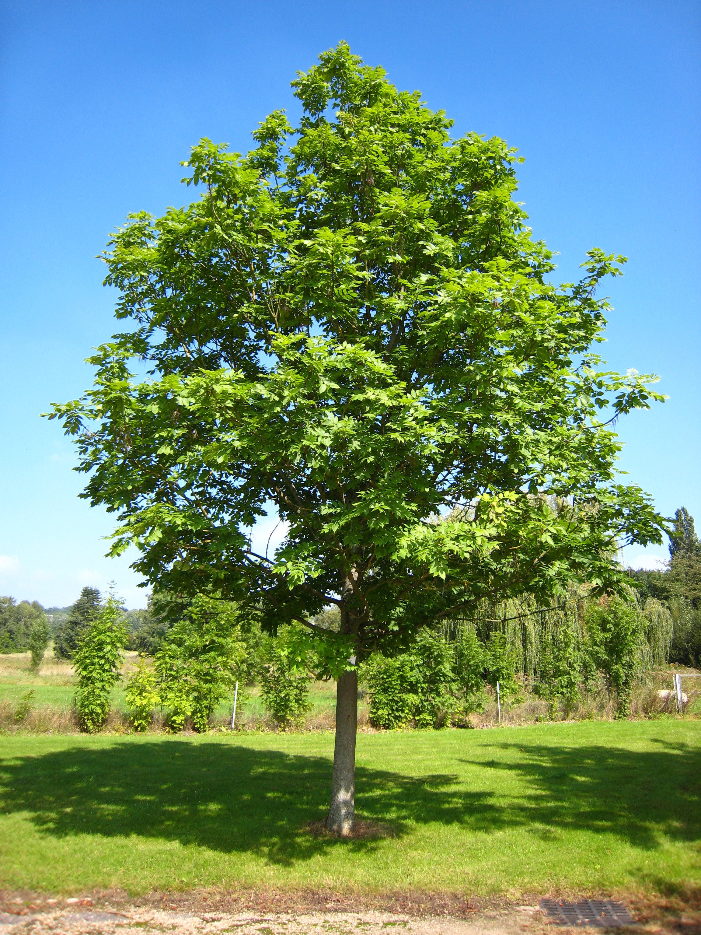 Fraxinus excelsior in the Arboretum de Chèvreloup in Rocquencourt